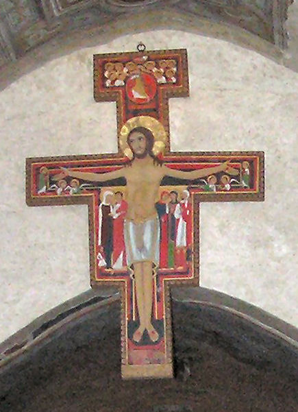 San Damiano Cross/Crucifix also known as the Cross of St. Francis. (Edit by --74.128.80.227 00:11, 21 March 2007 (UTC) Sean Noble Gray)